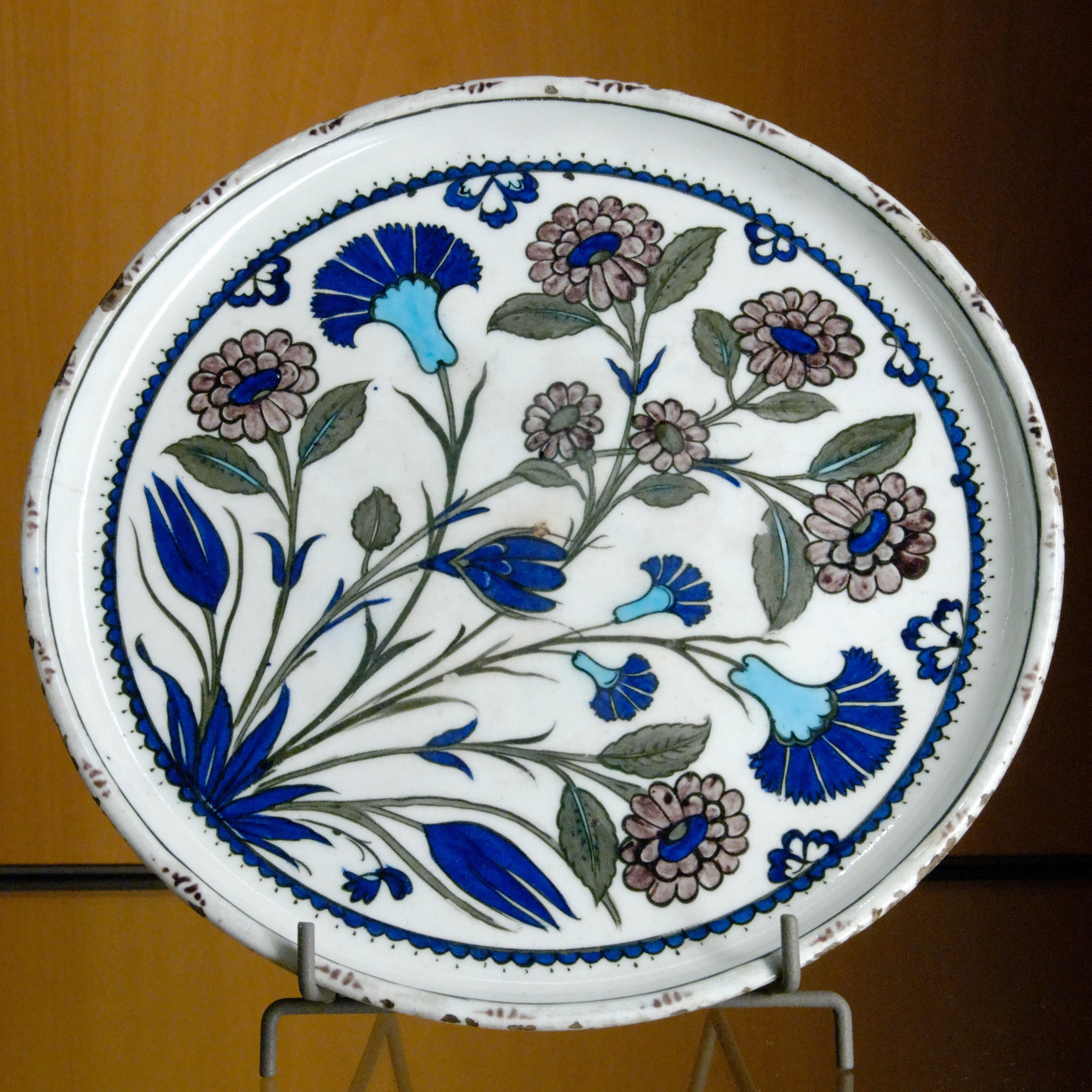 Salver with flower blossoms. Composite body with underglaze engobe decoration, Iznik, Ottoman Turkey, second half of the 16th century.